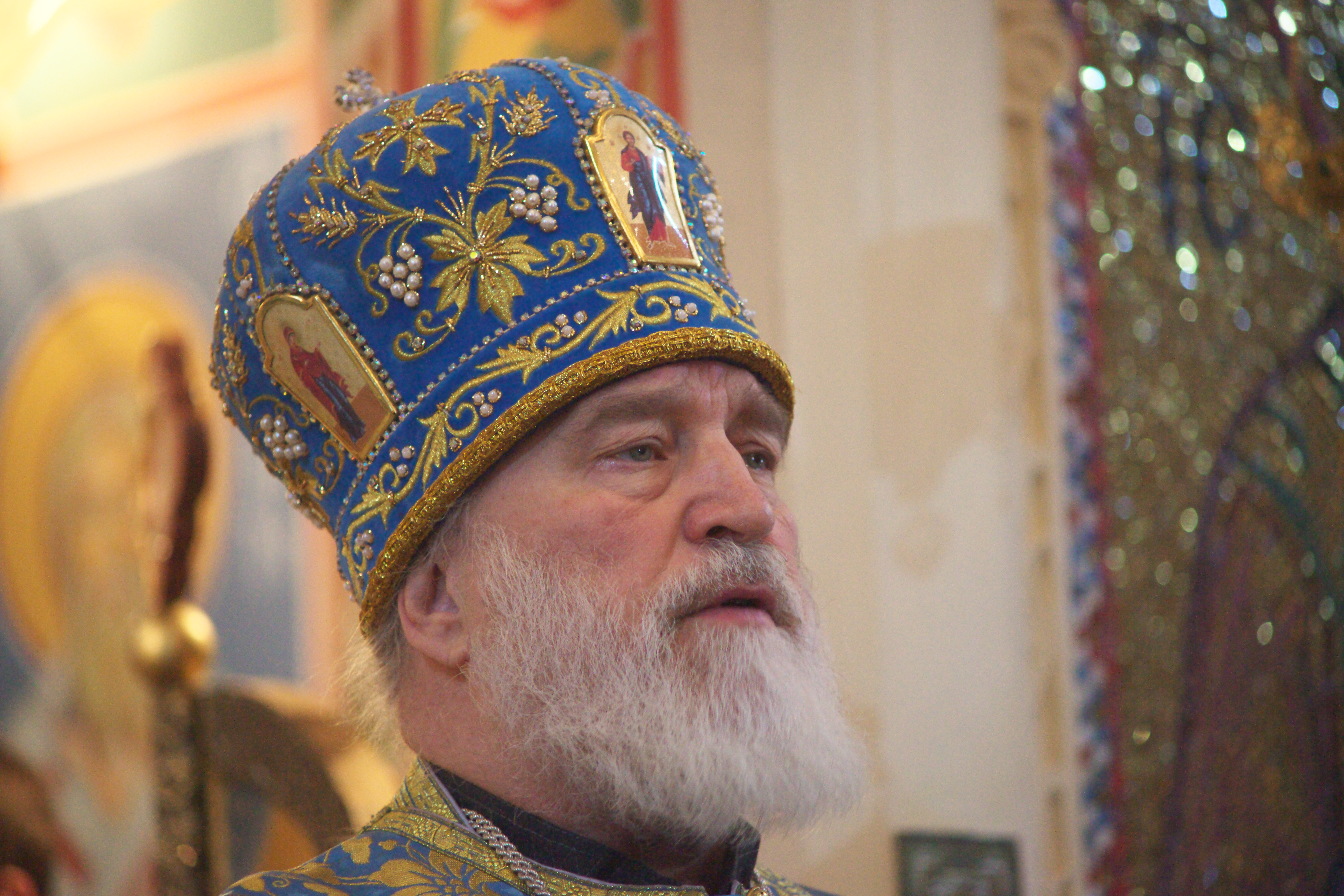 Metropolitan Paul is the emeritus Metropolitan of Minsk and Slutsk, the Patriarchal Exarch of All Belarus